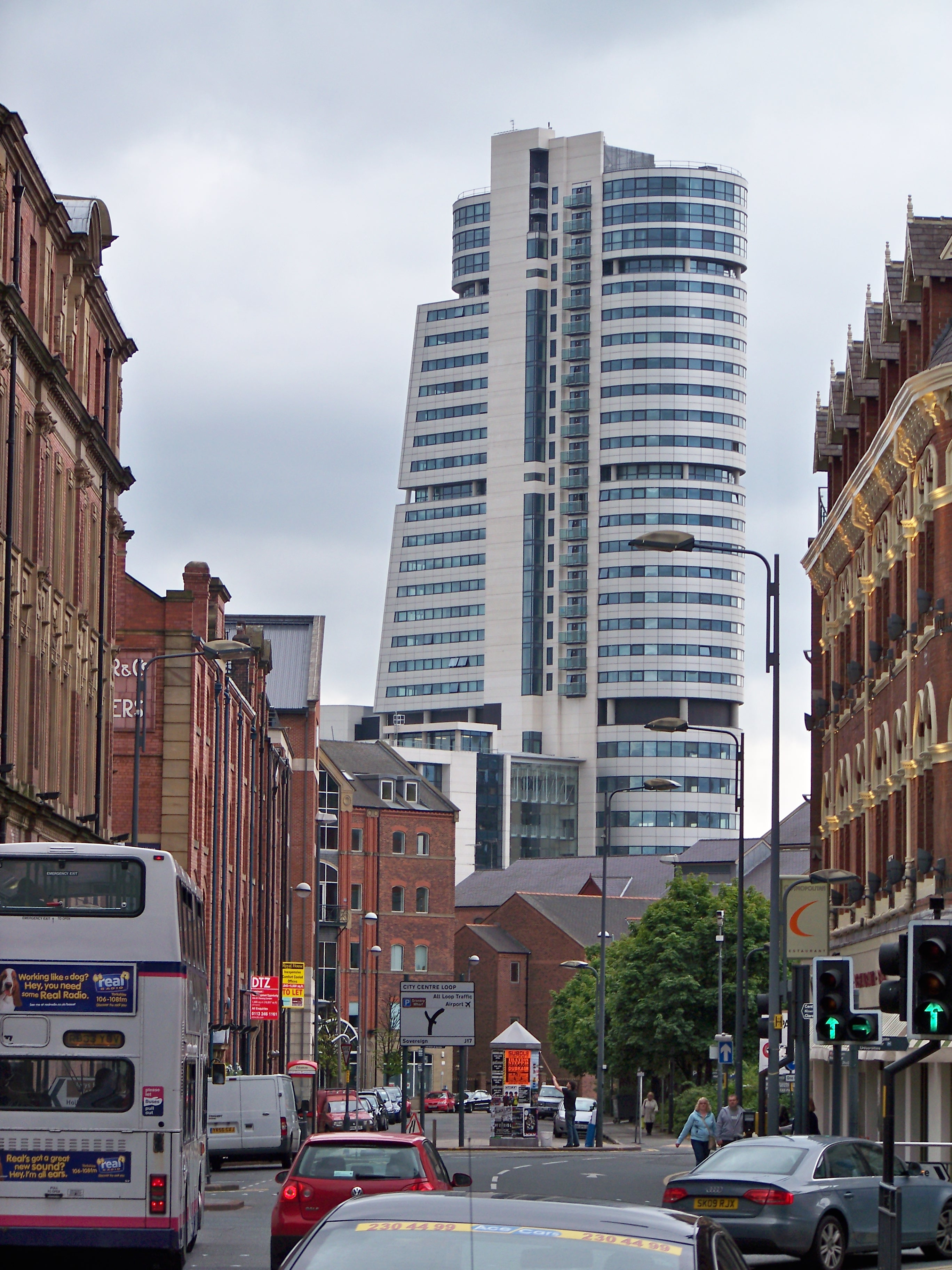 Bridgewater Place taken from Call Lane in Leeds, West Yorkshire, UK. May 2009.